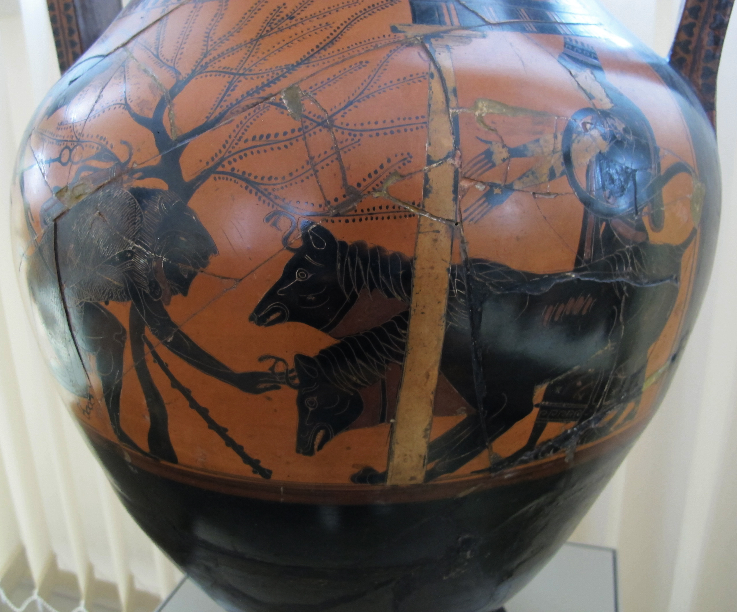 Painted black-figure amphora by Andokides depicting Heracles and Cerberus